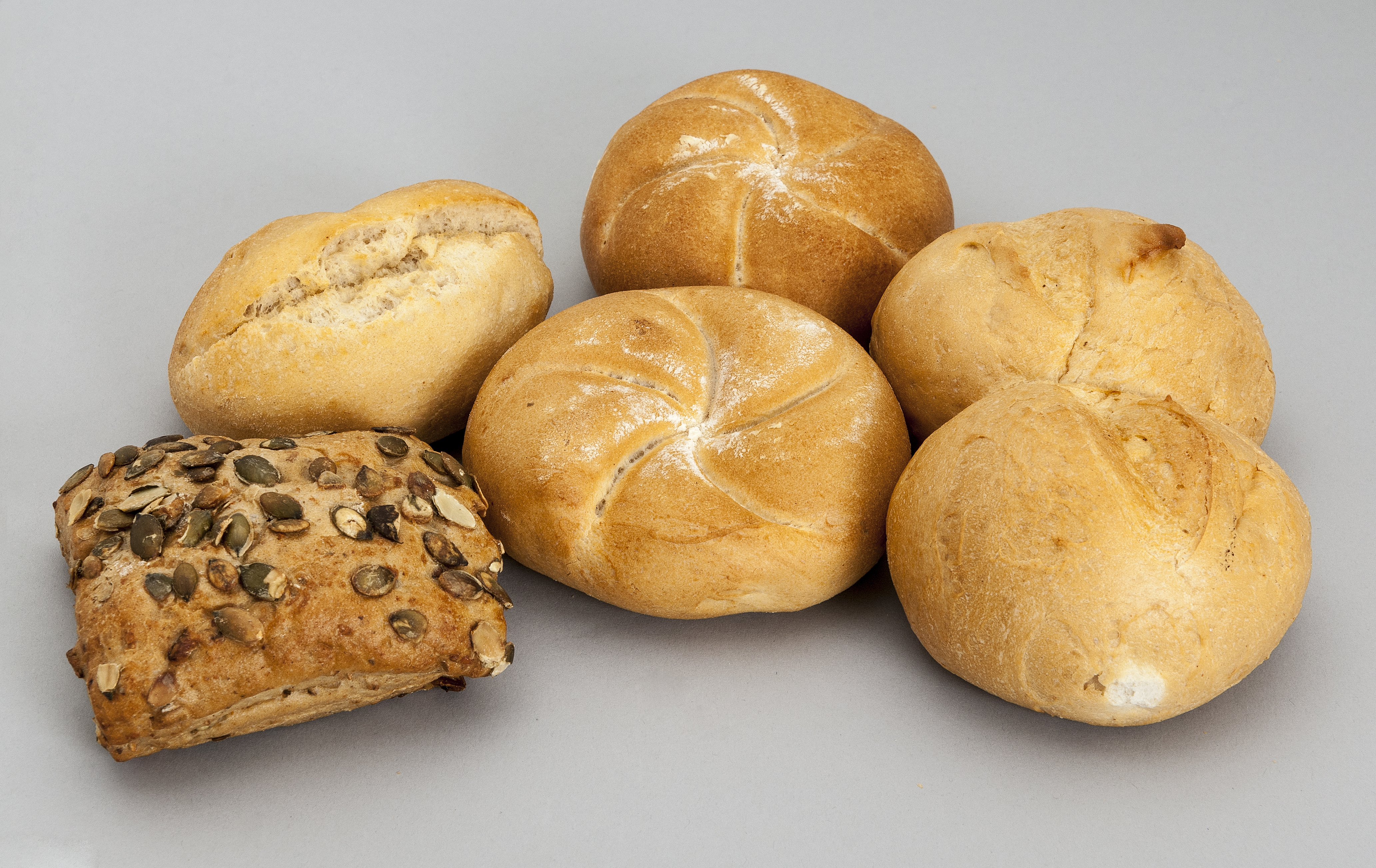 Five different commercial buns from Vienna. Top: normal bread, organic wholemeal bread from the Gradwohl bakery; below: pumpkinseed bread, from the Mann bakery: bread machine, double buns